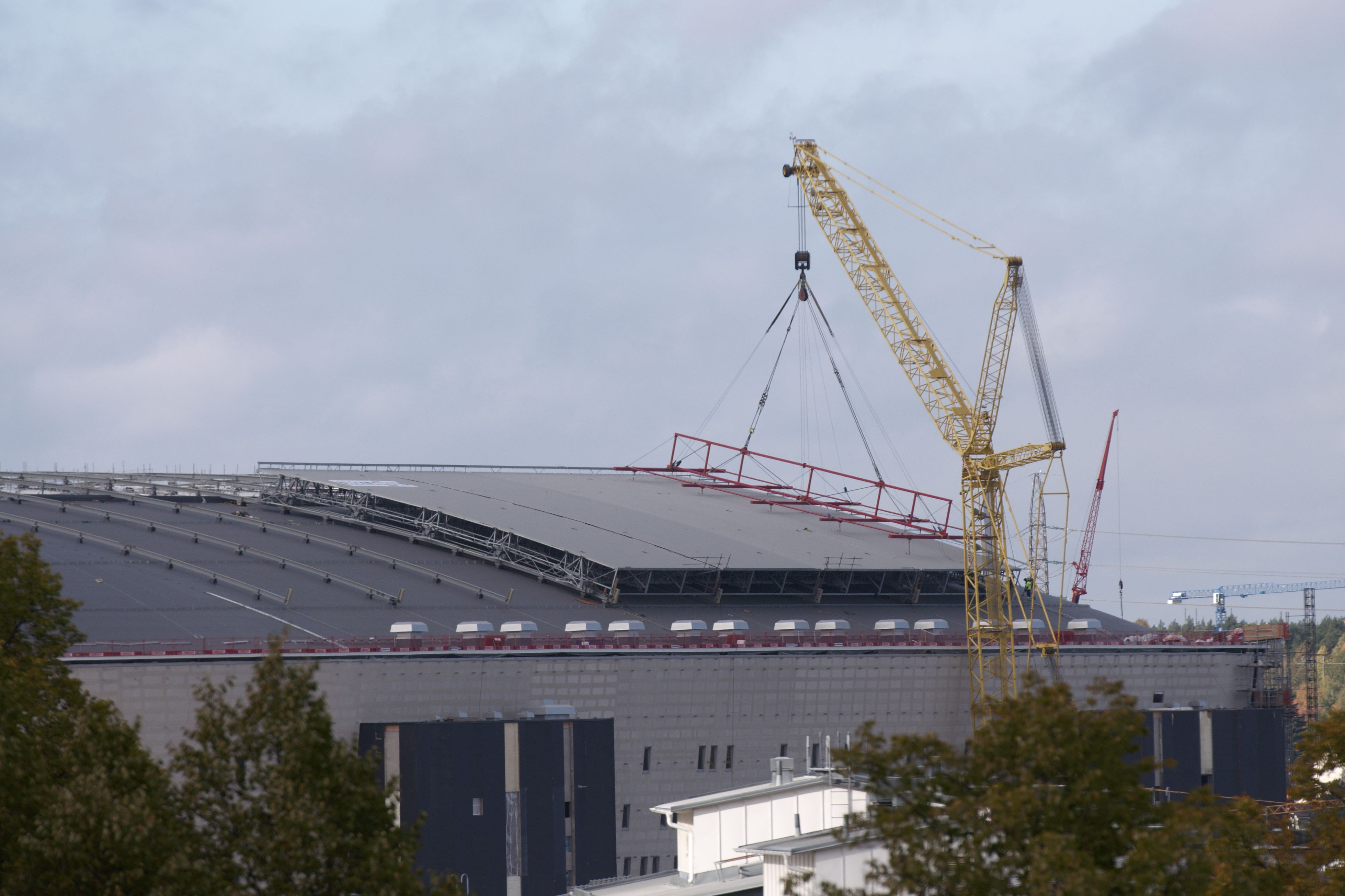 Installation of the movable roof at the Swedbank Arena, Solna, Sweden